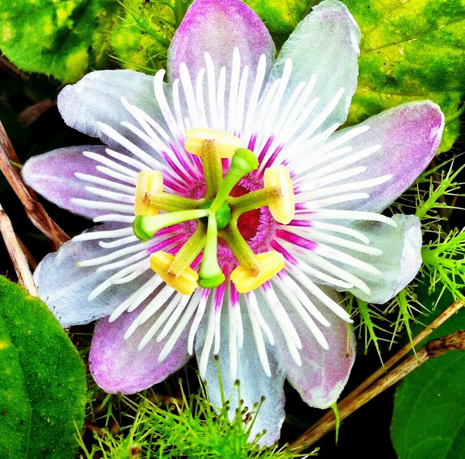 Its a variety of Passion flower clicked in my home town place.. Its show as " Colorful sunrise " . Its my own photography and dono how to do licensed